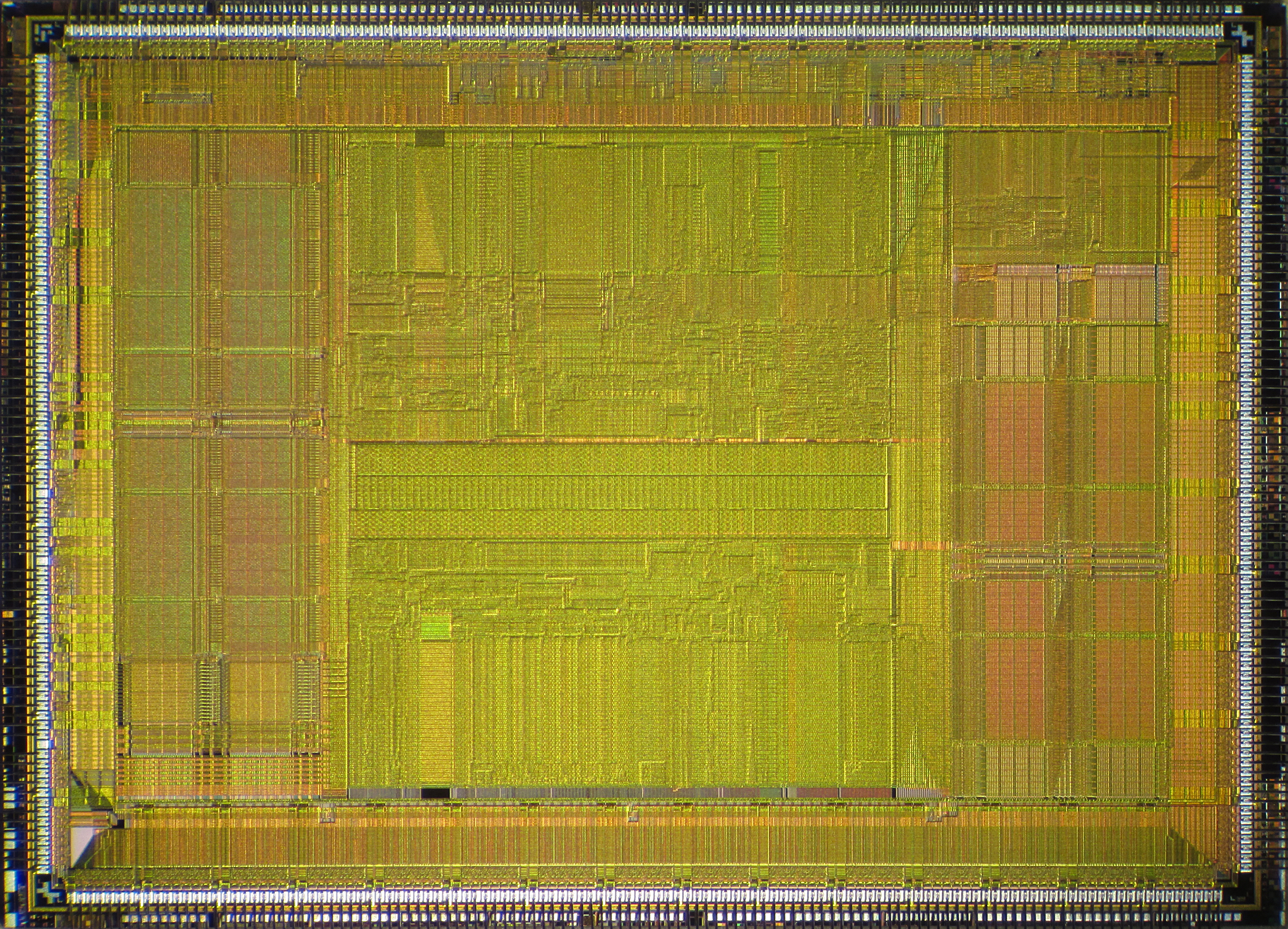 Die shot of DEC Alpha 21064A (EV45) microprocessor. Package has 21-40532-01 part number, and DEC chip number is DC284L.